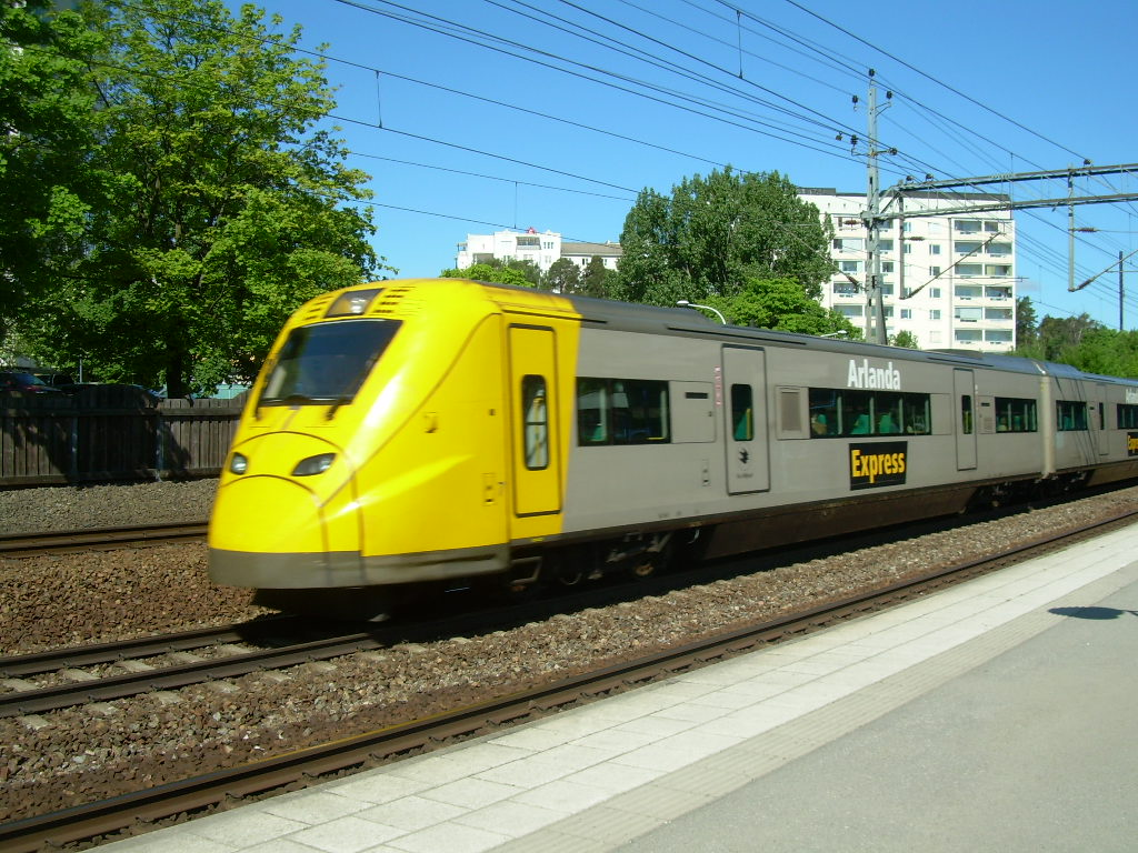 Picture outdoor